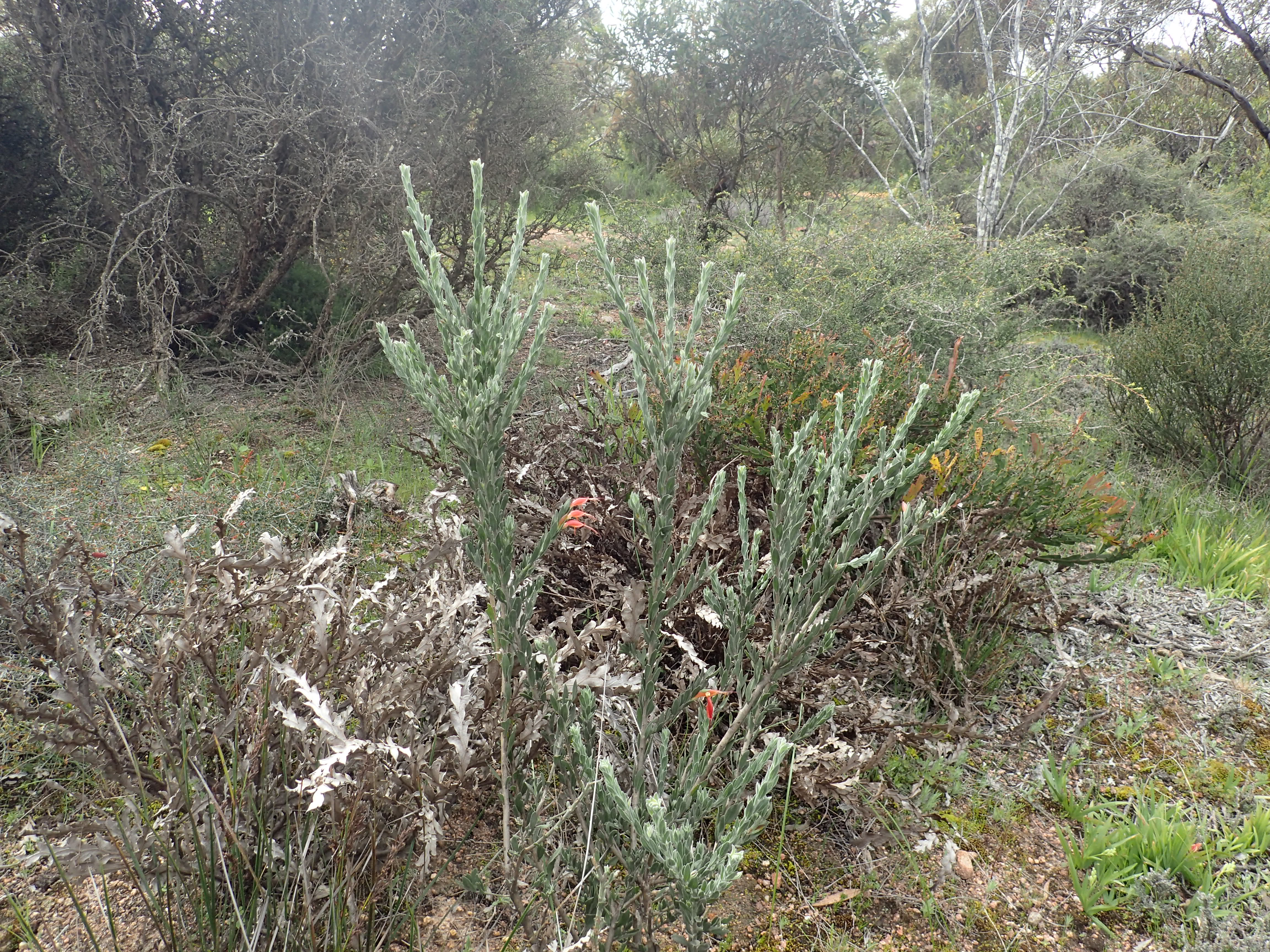 Eremophila glabra South Coast growing near the 8th tee on Ravensthorpe golf course